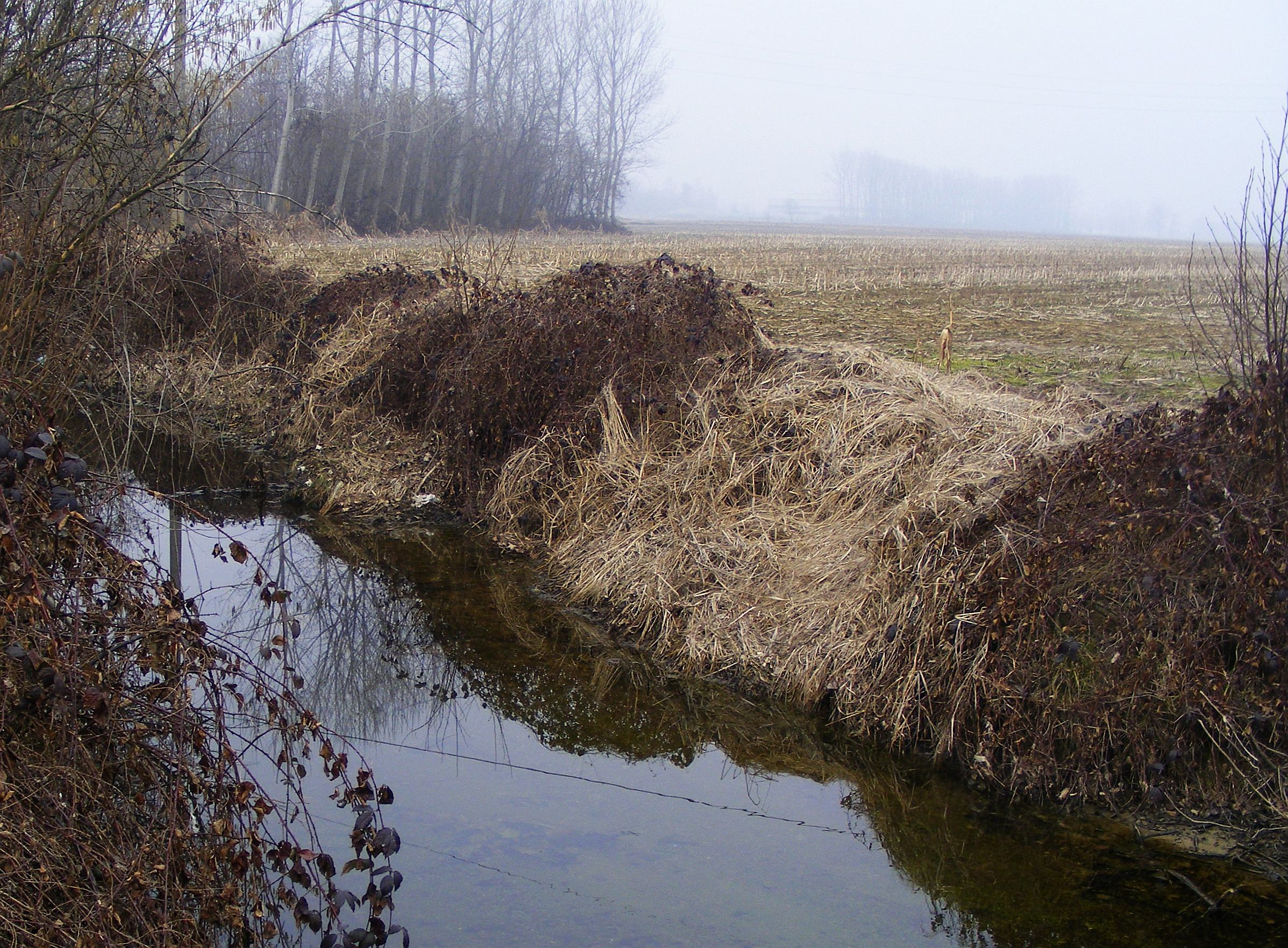 Favriasca creek between Favria and Front from SP 35 bridge (TO, Italy)